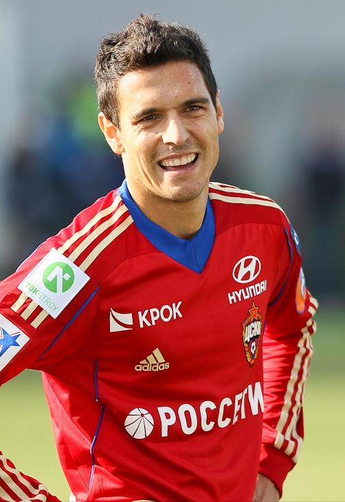 Georgi Milanov playing for PFC CSKA Moscow in 2013.